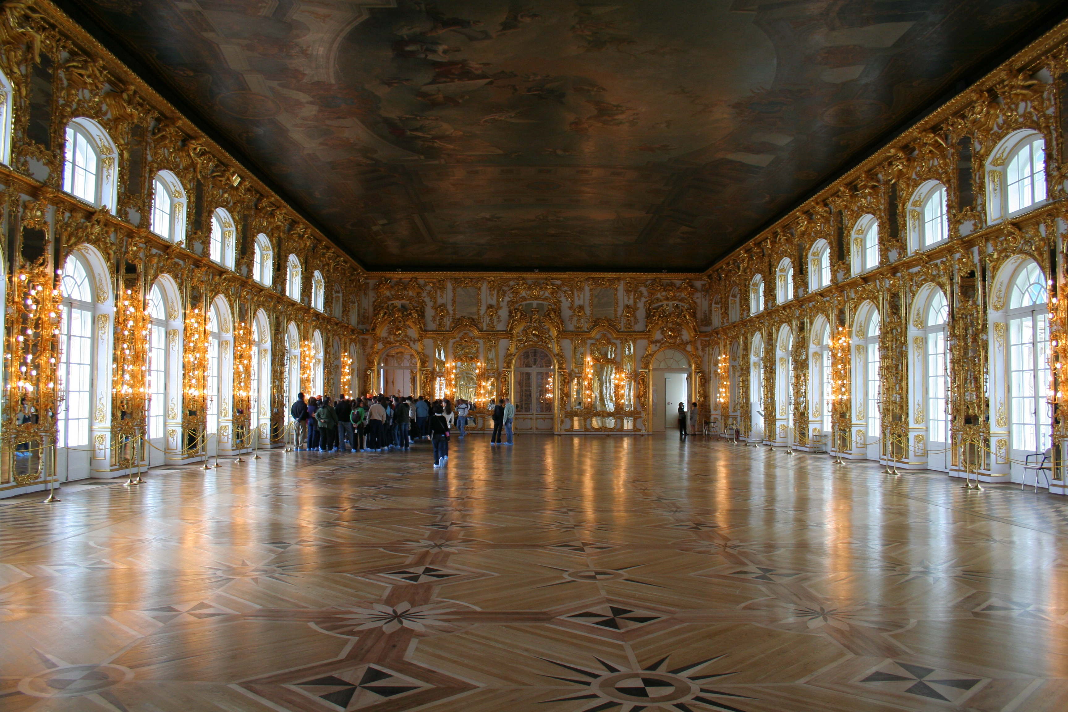 Catherine Palace in Pushkin, Saint Petersburg. Interiors.